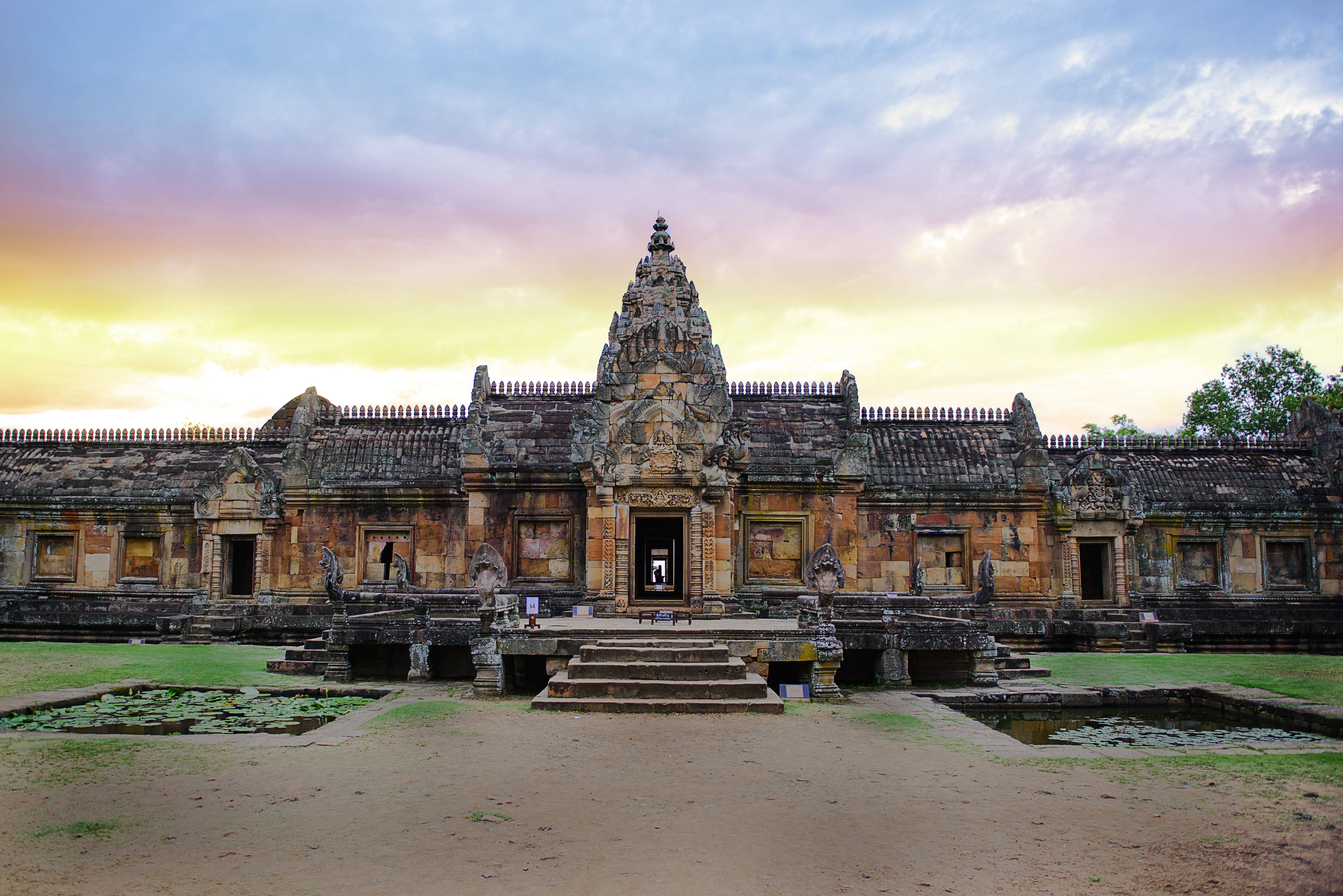 Prasat Hin Phanom Rung, Chaloem Phra Kiat District, Buri Ram Province